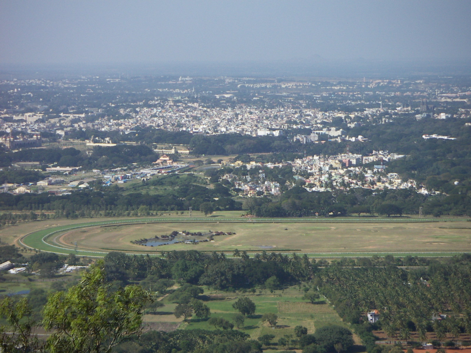 The race course at Mysore city, as viewed from Chamundi hills.